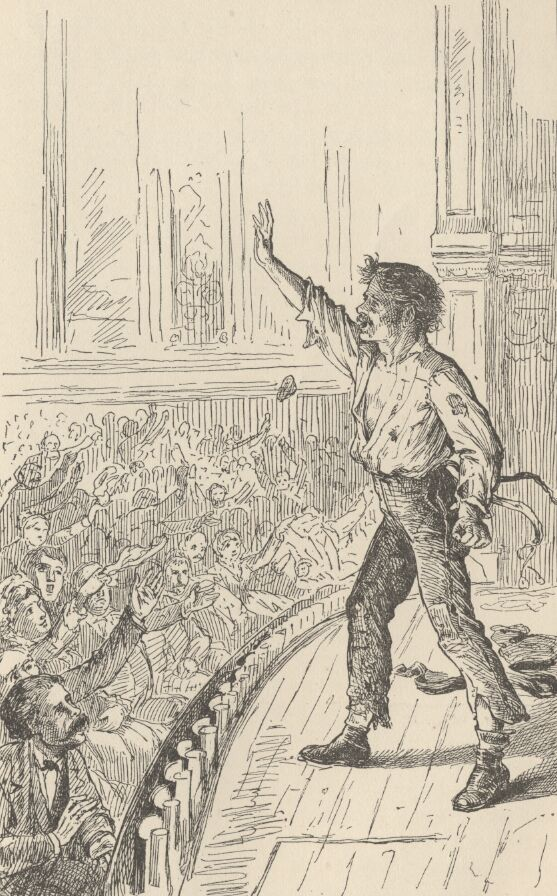 Illustration of Henry Clay Dean.